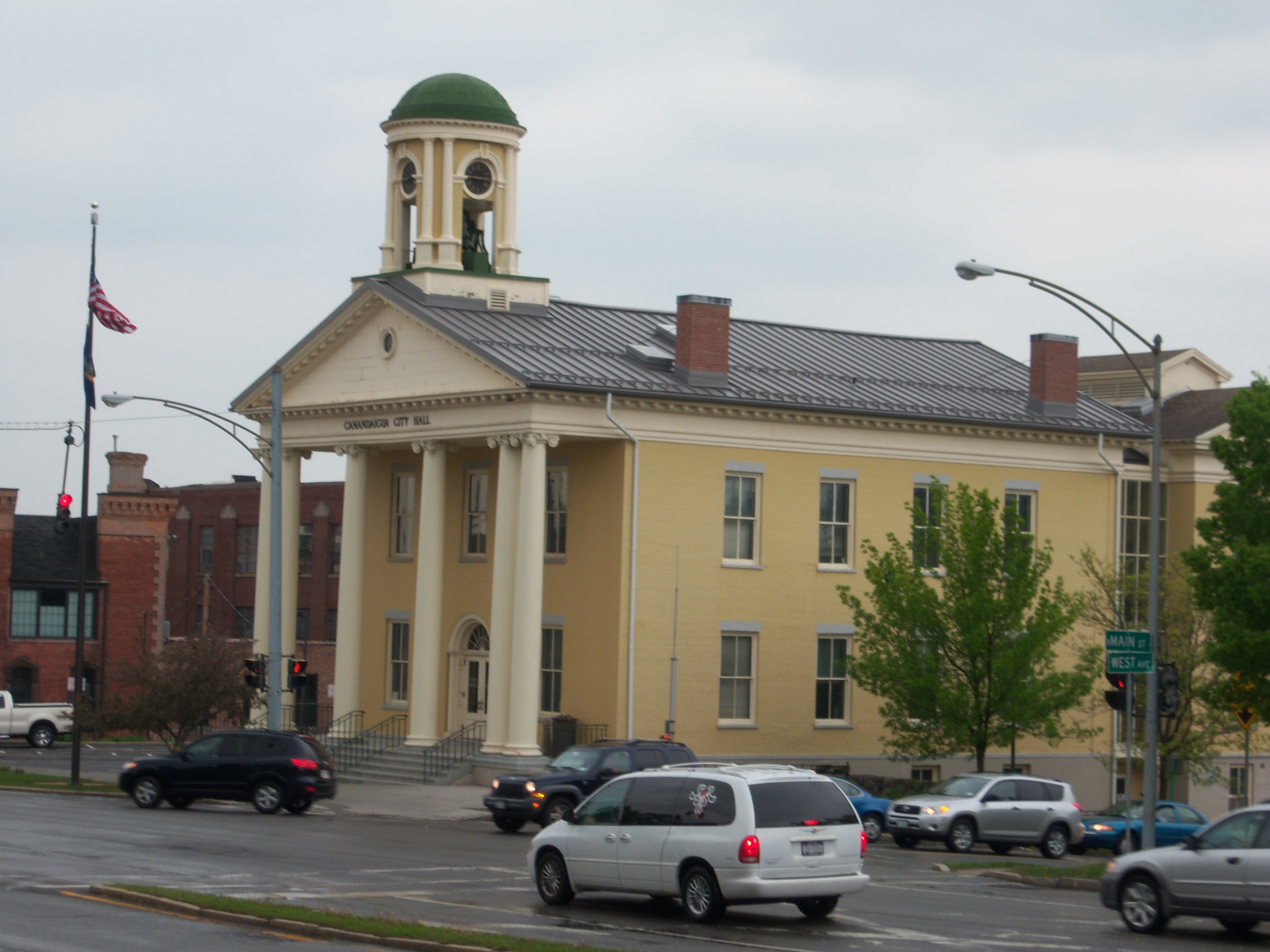 City Hall in Canandaigua, New York